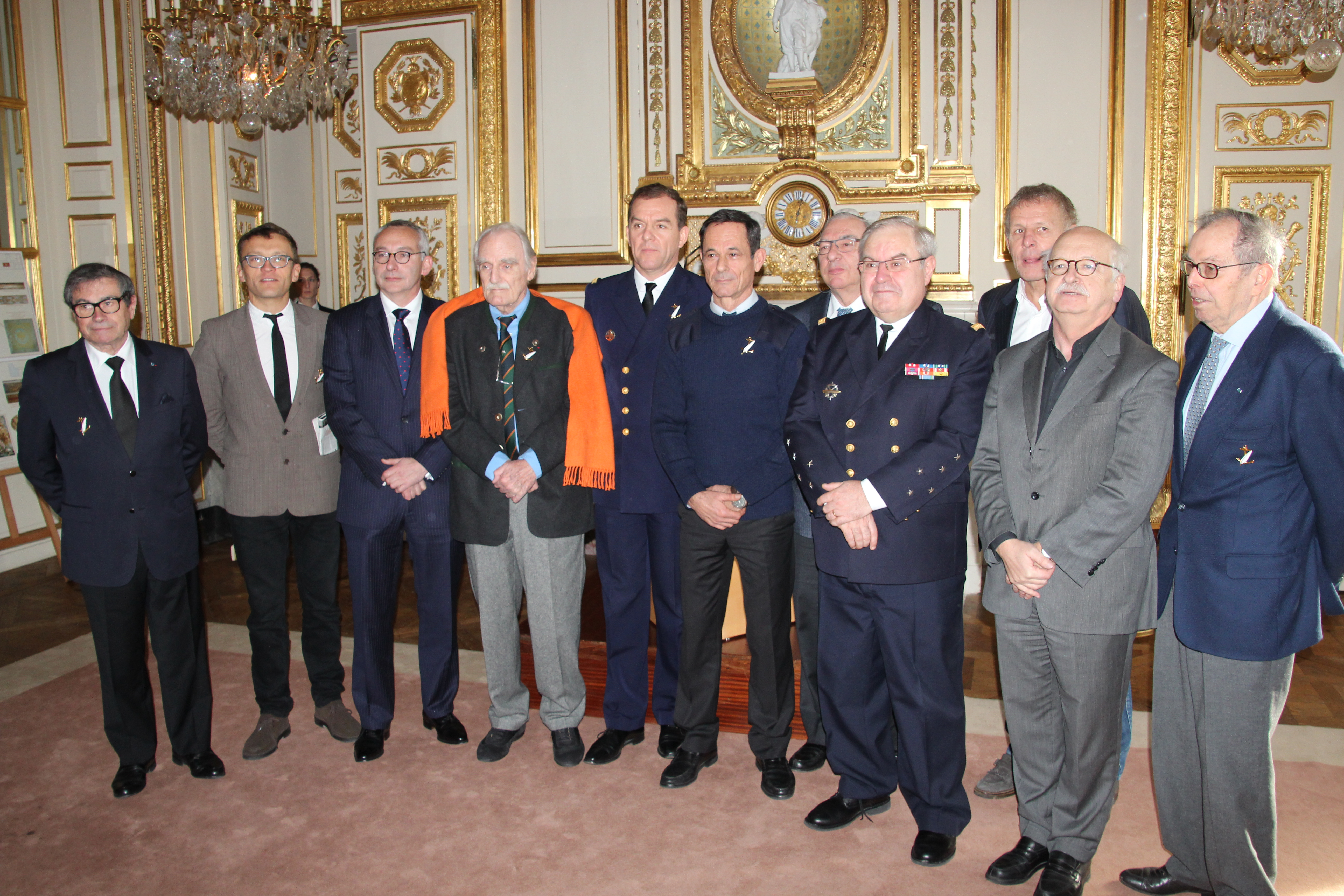 Patrice Franceschi's reception as Marine writer on February 10, 2014 at the Hôtel de la Marine on the Place de la Concorde in Paris, France. From left to right: François Bellec, Sylvain Tesson, Olivier Frebourg, Jean Raspail, Loïc Finaz, Patrice Franceschi, Didier Decoin, Bernard Rogel, Patrick Poivre d'Arvor, Érik Orsenna, Jean-Michel Barrault.